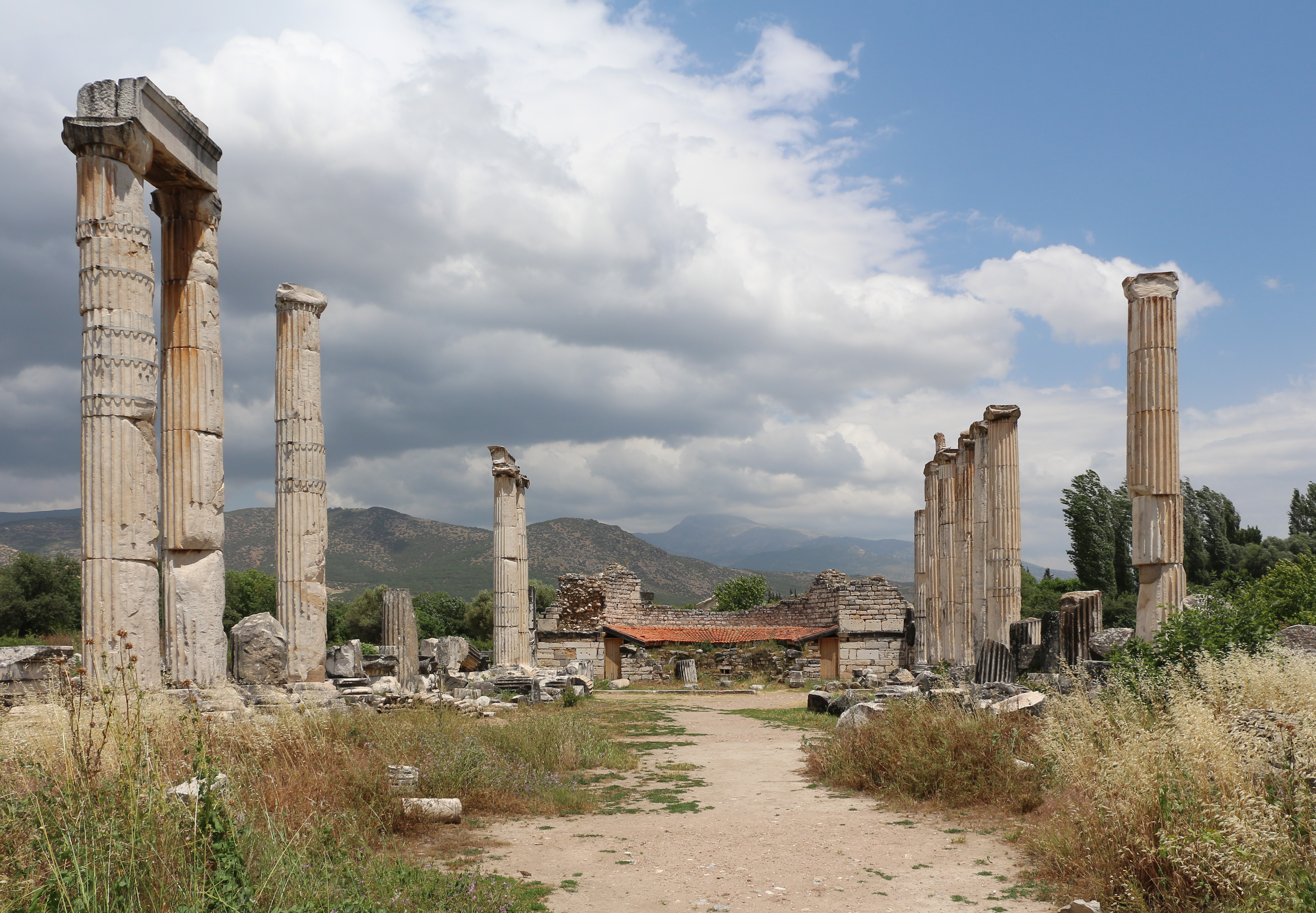 Temple of Aphrodite, Aphrodisias, Turkey